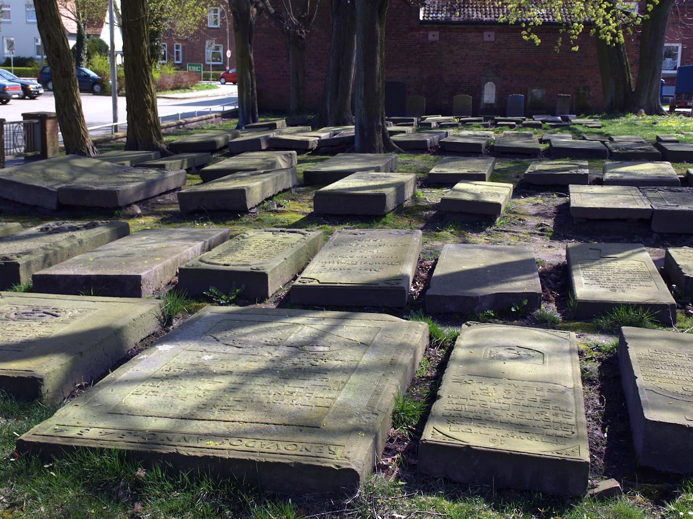 Glückstadt - Schleswig-Holstein (Germany), Jewish (Sephardic) cemetary , photo 2009